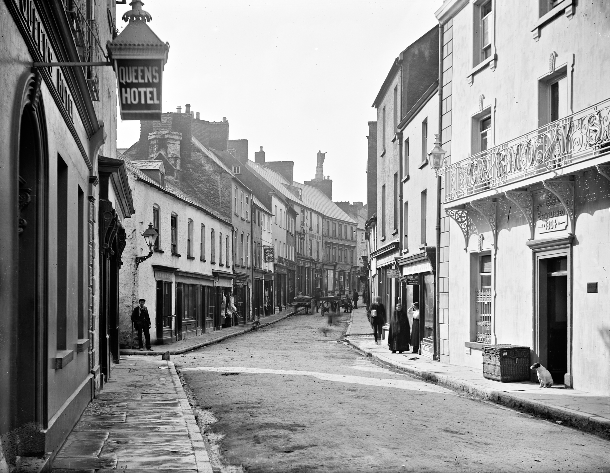 Lots to enjoy for lovers of signs and canines. Less so for those disposed to welfare of bovines. Is this first of future rhyming headlines? Nah; to the census - to find the Considines! Based on the businesses we see here (and that of a seemingly contemporary reverse view), it's likely this image was taken closer to the end of the range in the catalogue entry (c.1910) than the start of the range. Which would put it, per [/photos/beachcomberaustralia/ beachcomberaustralia] within a few years of real-life tragedy that seemingly inspired Joyce to mention the pictured Queen's Hotel in his celebrated Ulysses: - His father poisoned himself, Martin Cunningham whispered. Had the Queen's hotel in Ennis. You heard him say he was going to Clare. Anniversary Photographer: Robert French Collection: Lawrence Photograph Collection Date: c.1865-1914 (though likely close to end of this range, c.1910) NLI Ref: L_ROY_11350 You can also view this image, and many thousands of others, on the NLI’s catalogue at